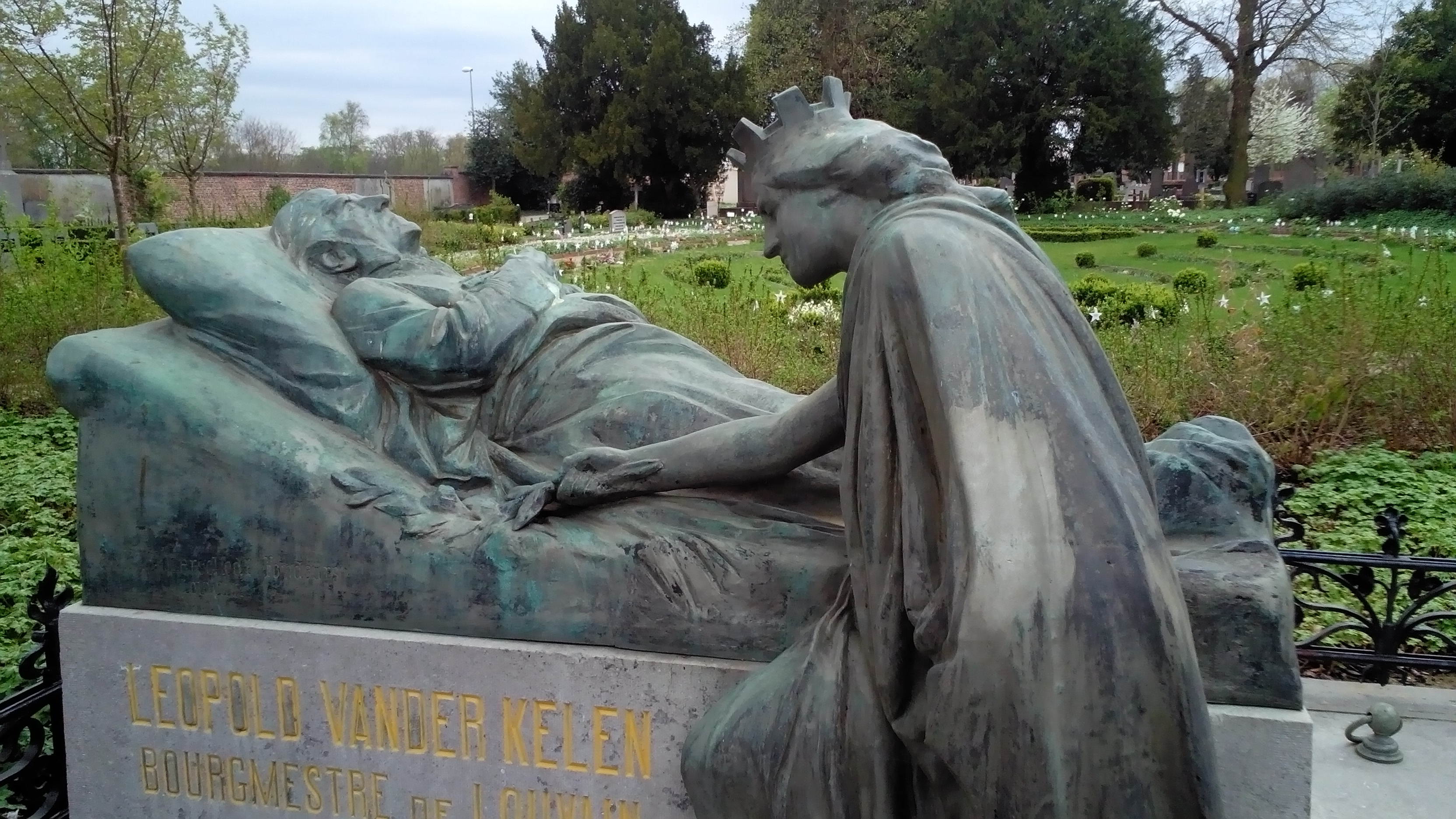 Tombstone Leopold Vander Kelen